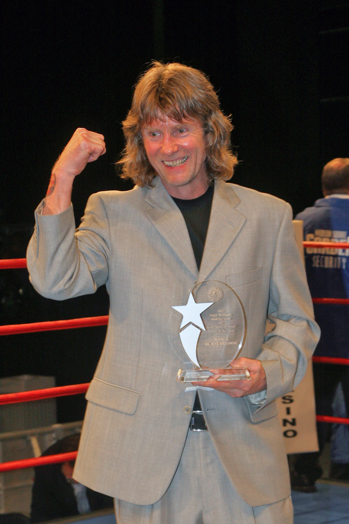 Kozlowski on being awarded the honorable title “Trainer of Year.”